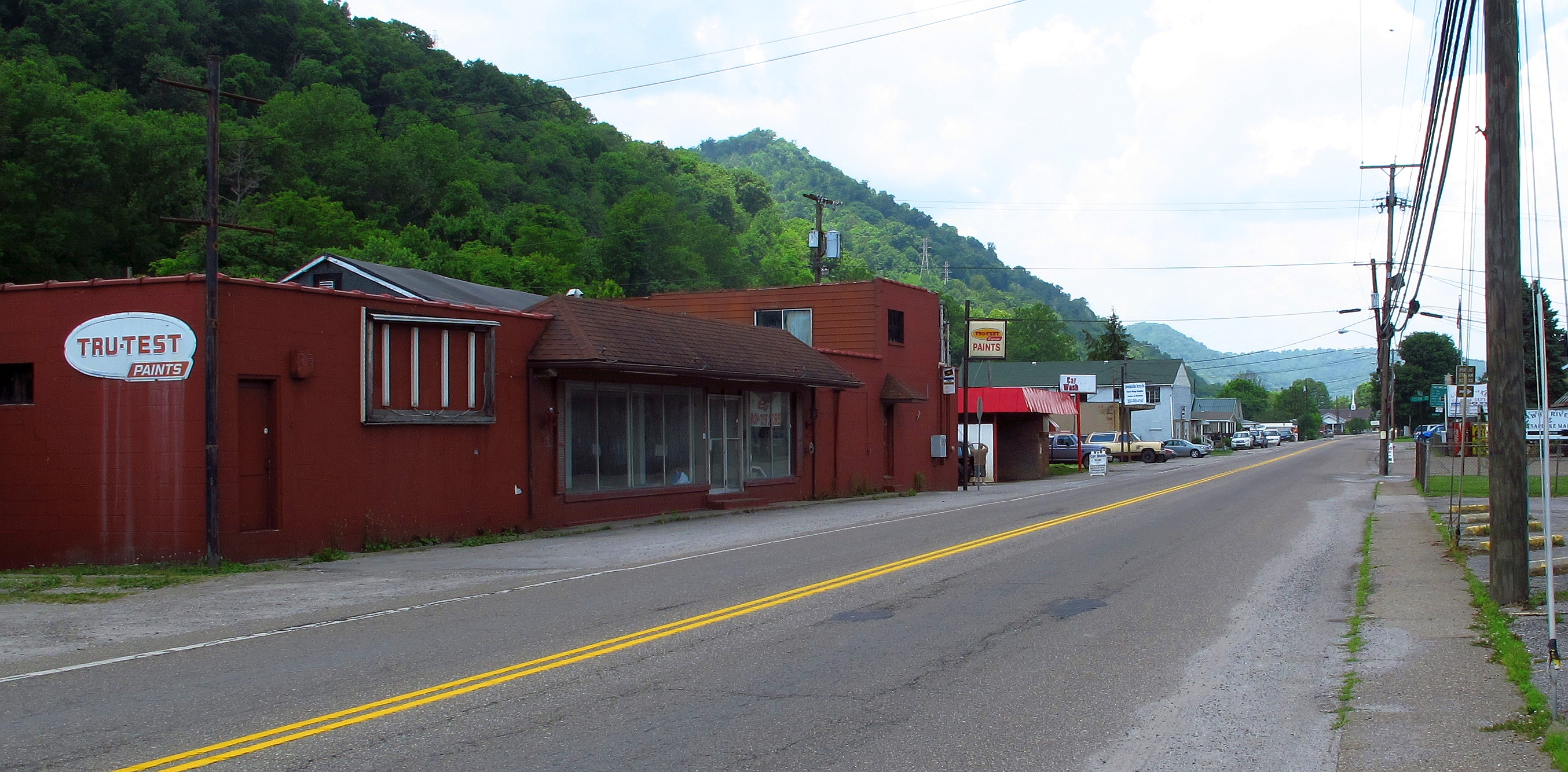 Looking northwest on Maccorkle Avenue in Chesapeake, West Virginia.